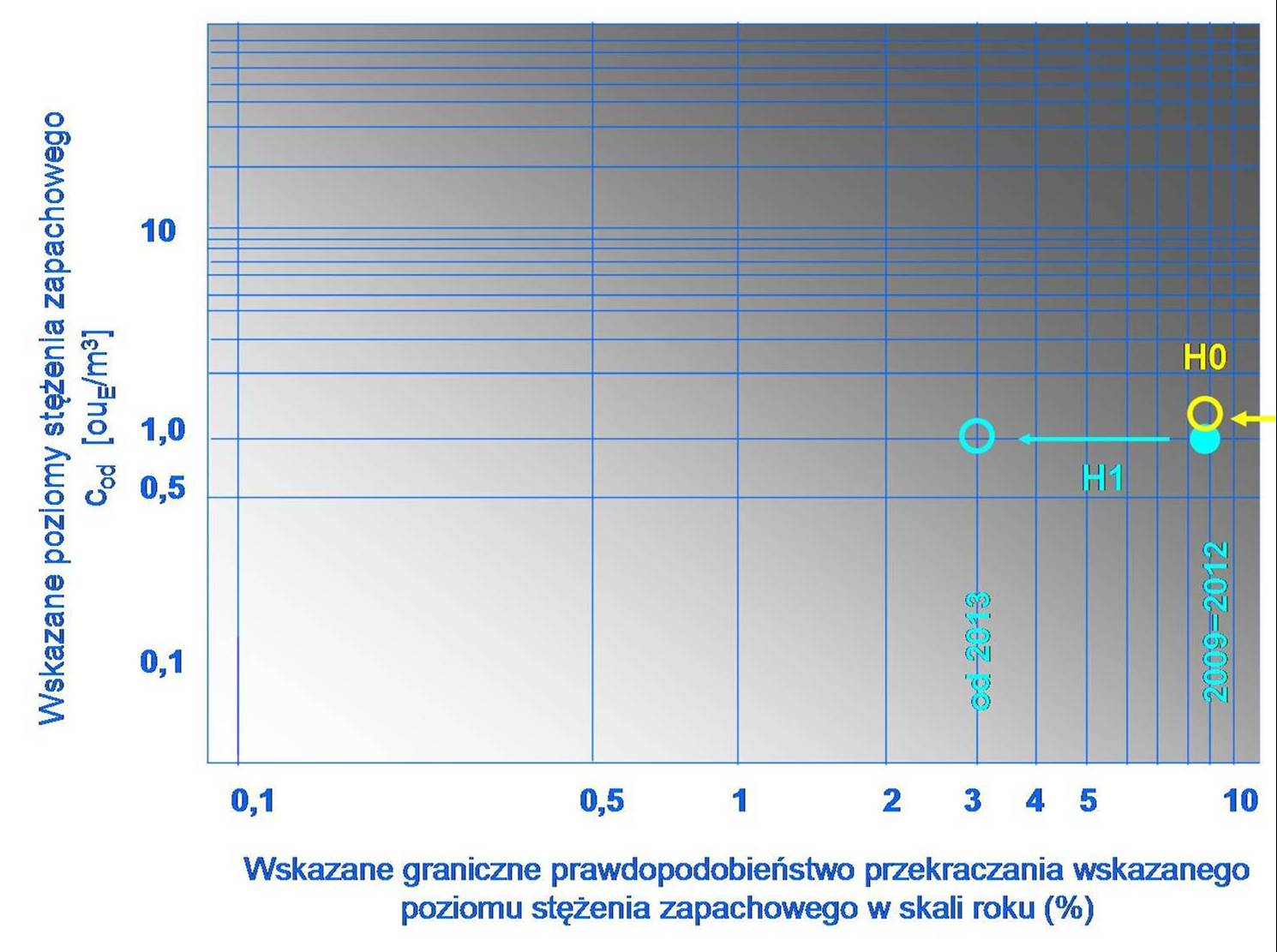 Odour Air Standards (Pl)